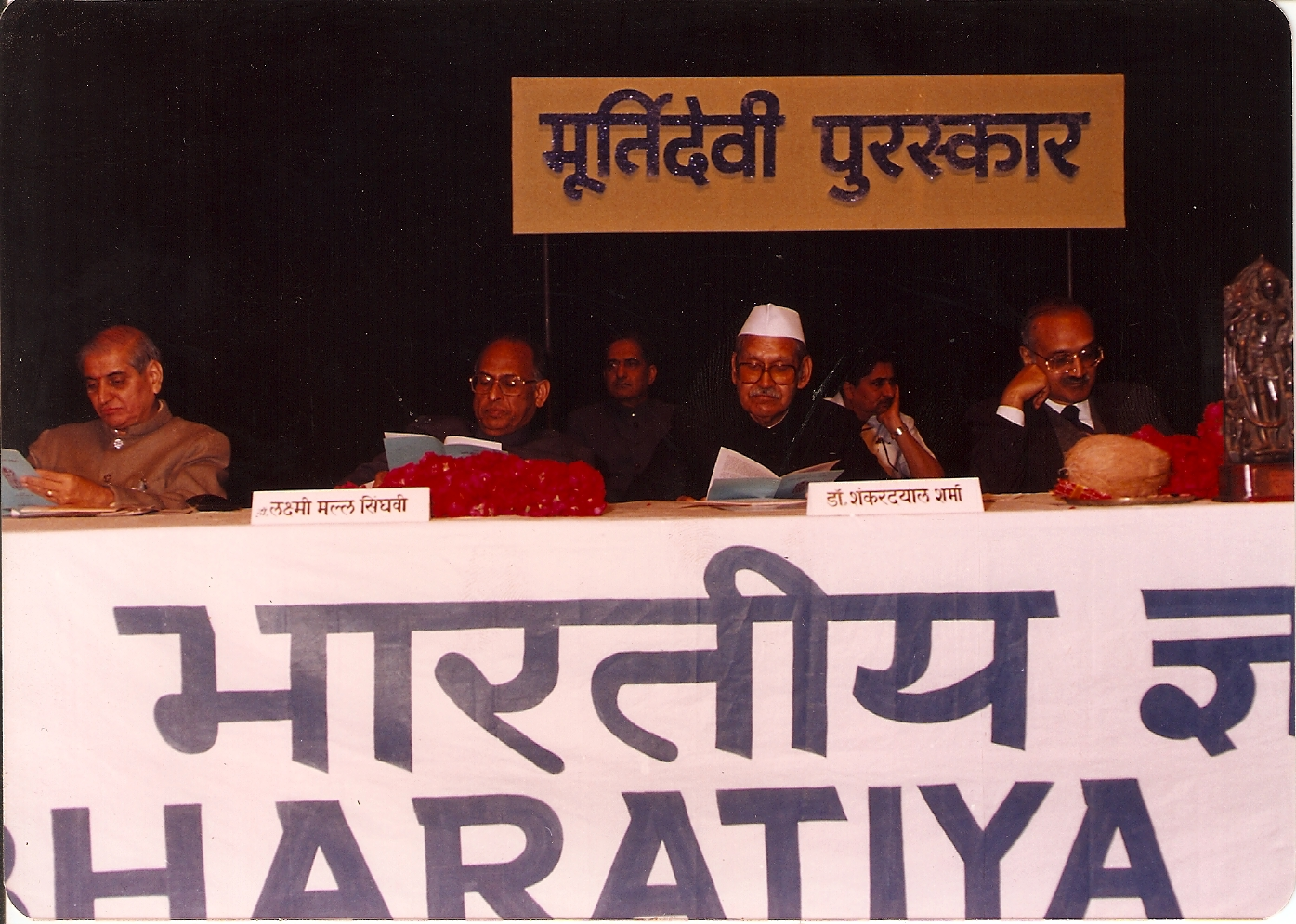 Panduranga Rao, Director, Bharatiya Jnanpith at an award function with the then President Of India